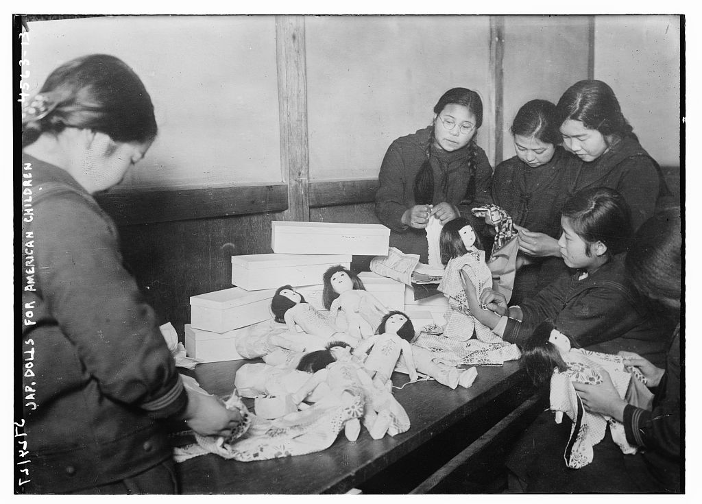 Bain News Service,, publisher. Jap[anese] dolls for American children [1927 May 24] (date created or published later by Bain) 1 negative : glass ; 5 x 7 in. or smaller. Notes: Title and date from unverified data provided by the Bain News Service on the negative. Forms part of: George Grantham Bain Collection (Library of Congress). Format: Glass negatives. Repository: Library of Congress, Prints and Photographs Division, Washington, D.C. 20540 USA, General information about the Bain Collection is available at Higher resolution image is available (Persistent URL): Call Number: LC-B2- 4563-13